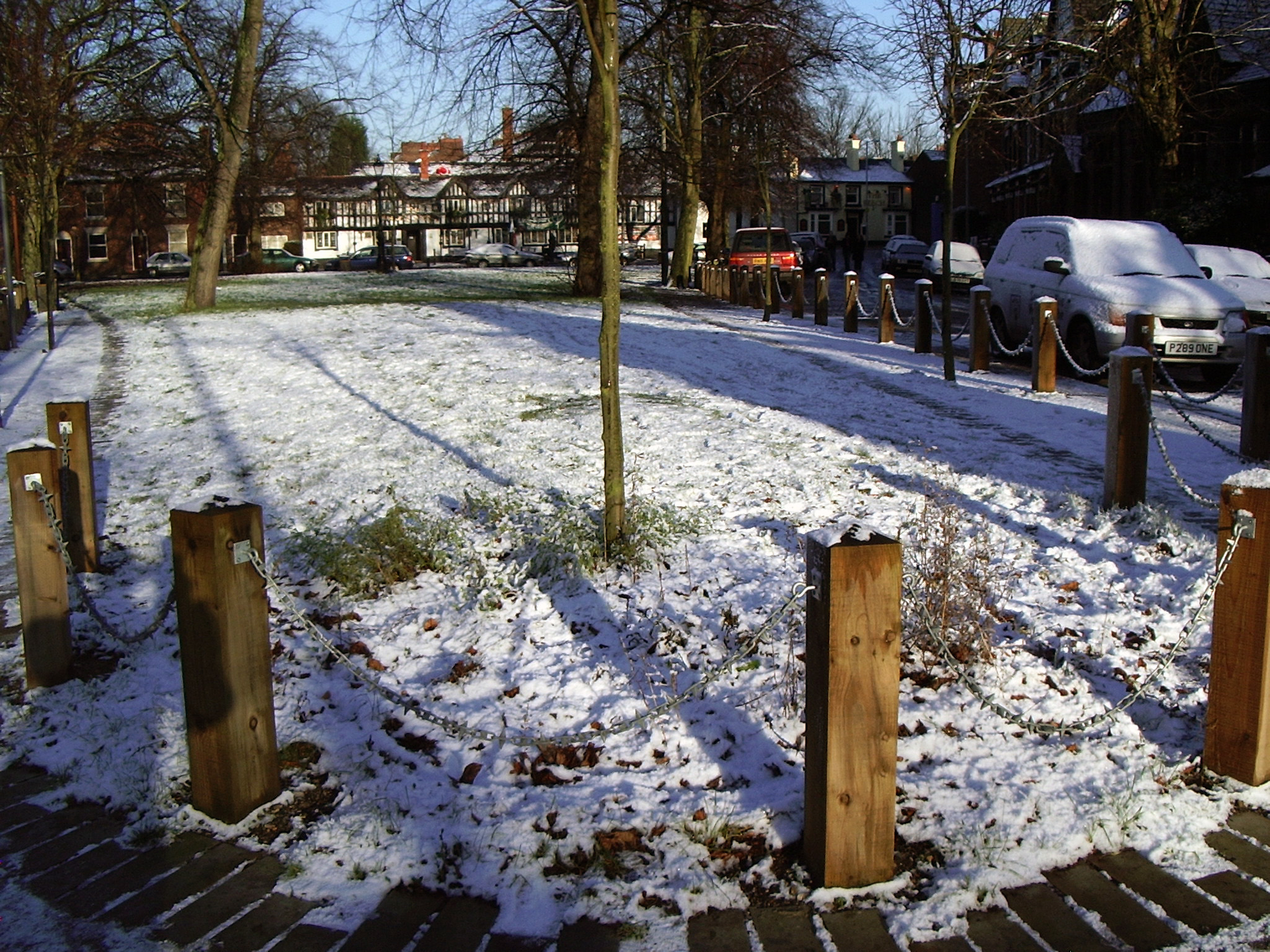 Chorlton Green Looking north from the southern tip of the green towards the black and white front of the Horse & Jockey.